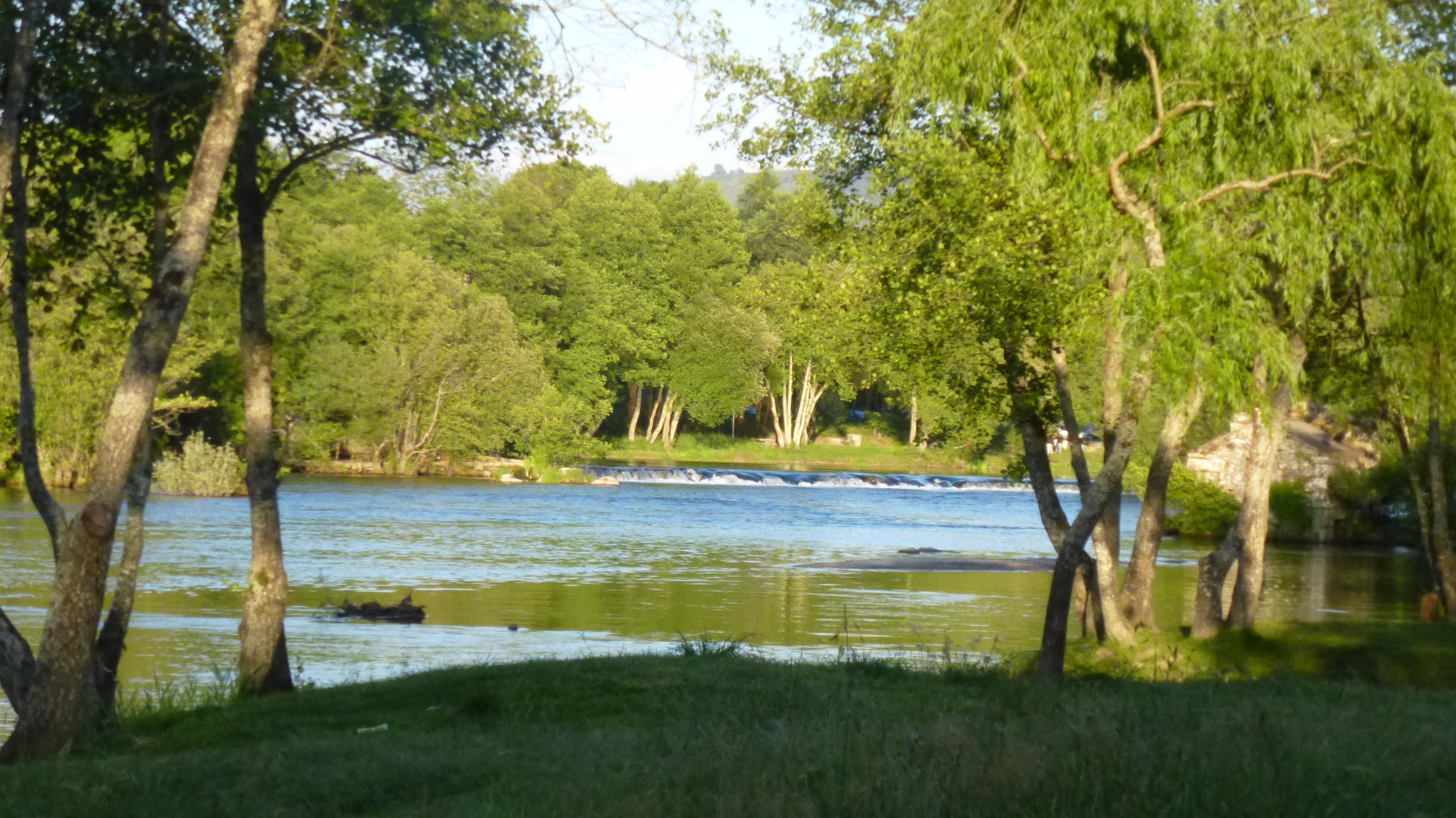 River Beach